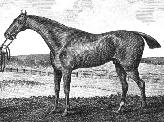 Cropped segment of an engraving of the 1793 Epsom Derby winner Waxy, a Thoroughbred racehorse and influential sire, by equine artist Francis Sartorius.